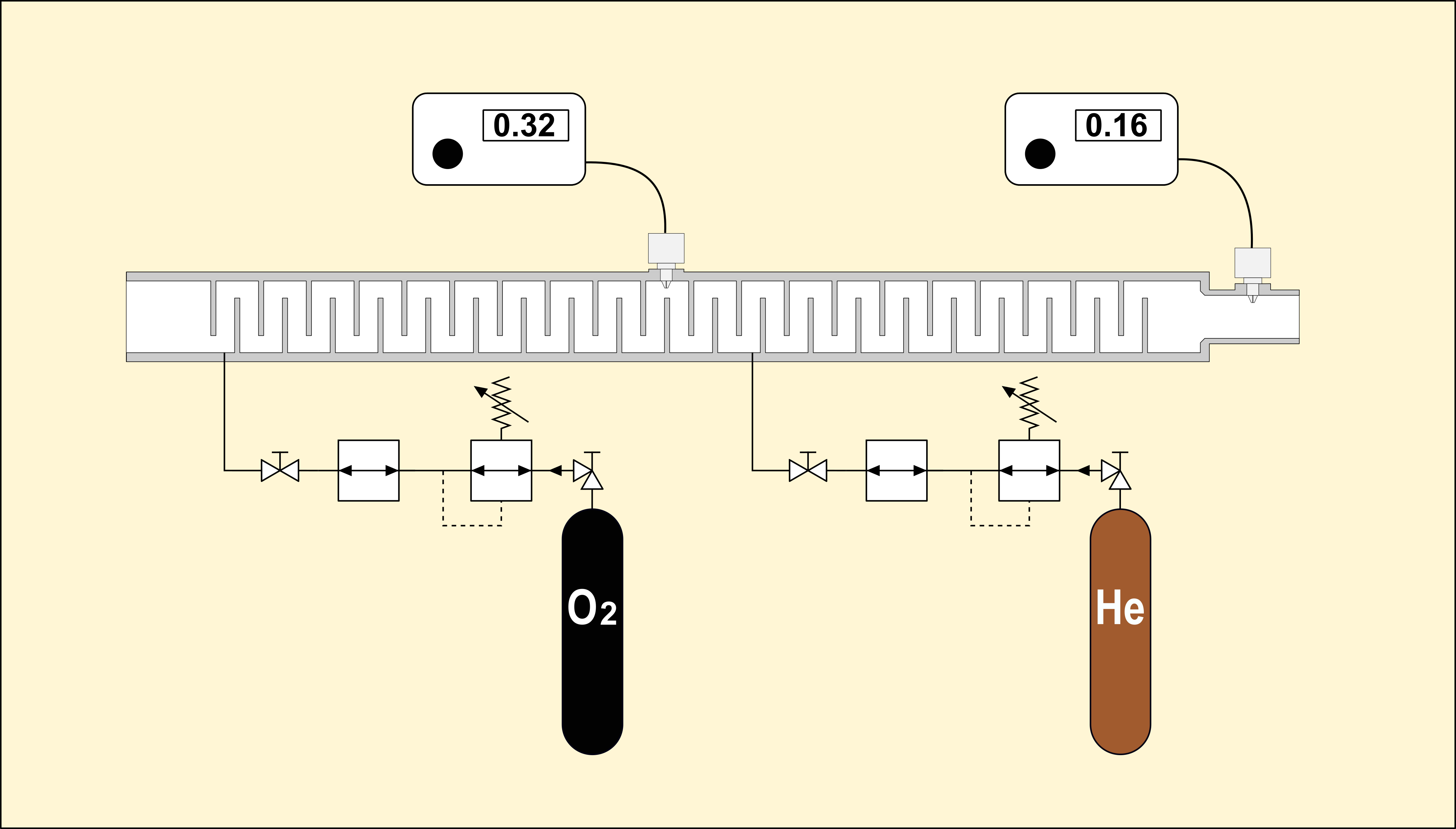 Mixing tube with oxygen sensors for continuous trimix blending, showing monitoring sensors and gas supply circuits for oxygen and helium